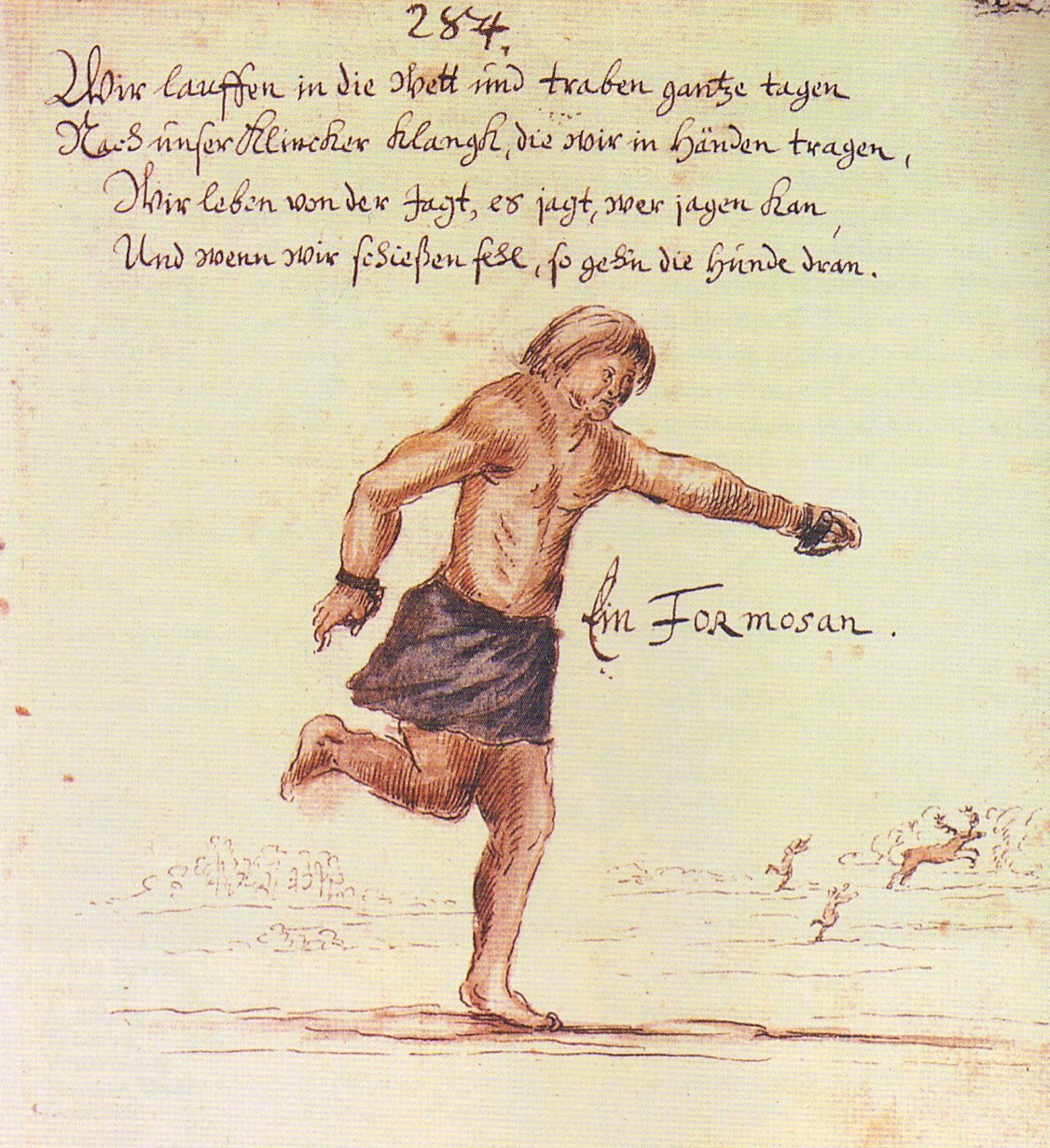 A painting of a Formosan native by the German East Asia traveller Caspar Schmalkalden. Approximate English translation: We are racing and sometimes running for daysaccording to the rhythm of our flappers, which we carry in our handsWe are making our livelihood from hunting, and everyone who is able hunts,If we miss our target we are setting our dogs on.